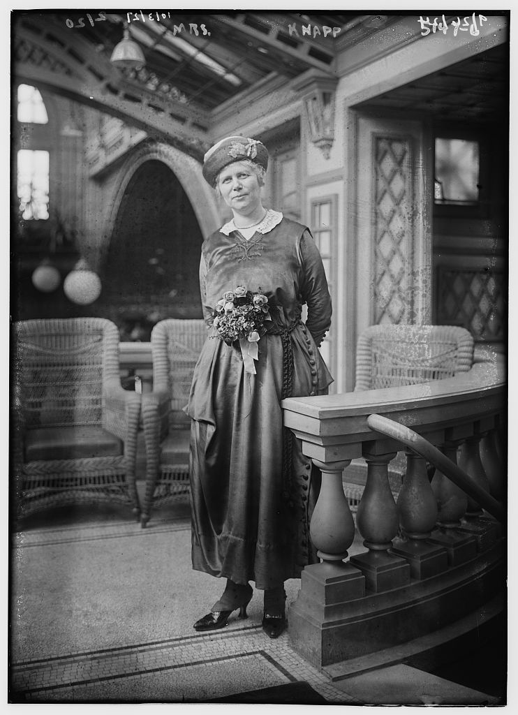 Florence E. S. Knapp in 1920